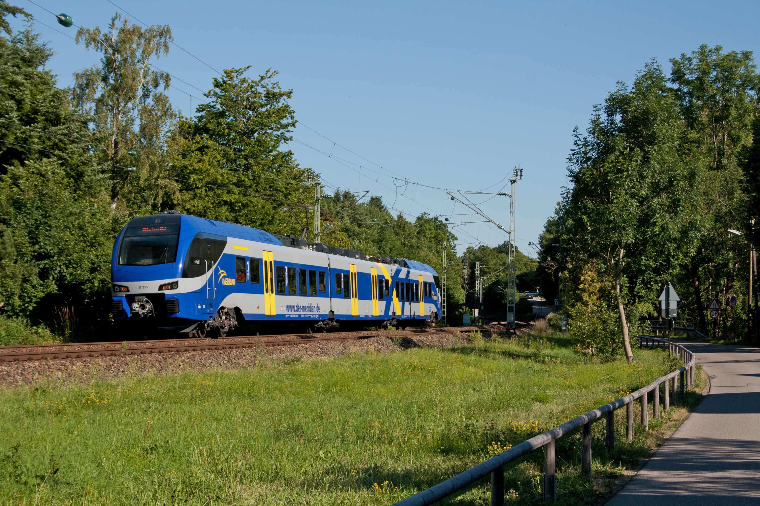 ET 355 underway, from Rosenheim, approaching Bahnhof Deisenhofen. In 2016 this unit was involved in the Bad Aibling rail crash